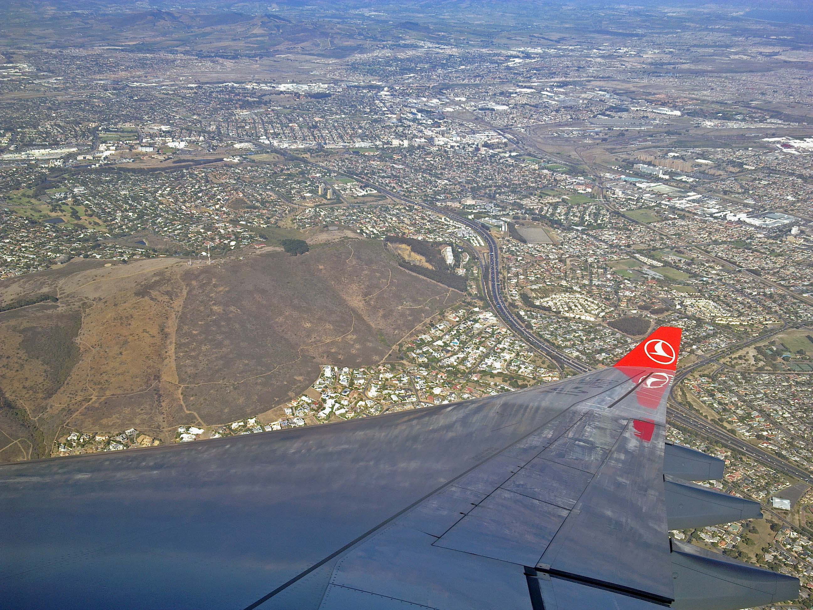 The Tygerberg hills and suburb viewed from a Turkish Airlines flight (tail number TC-JNH) towards Johannesburg. The N1 highway is clearly visible in the photograph.